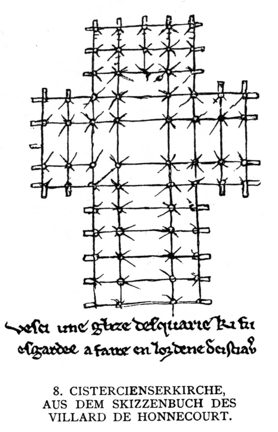 Plan of a Cistercian church by Villard de Honnecourt